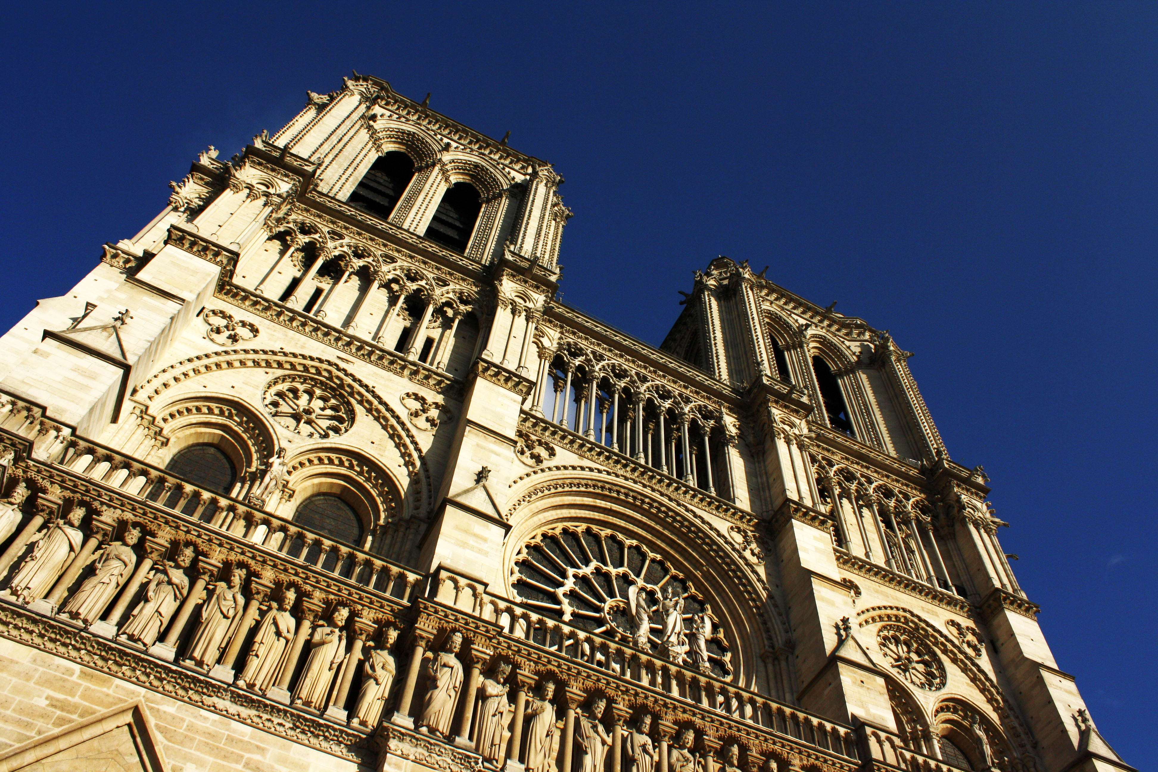 Notre Dame de Paris